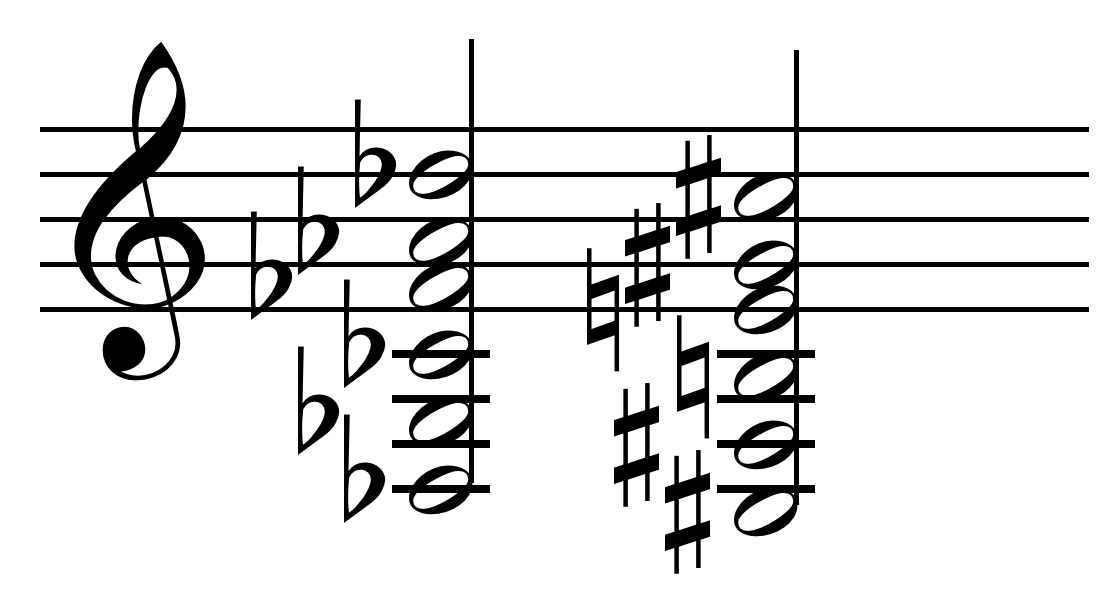 D-flat/C-sharp tuning.